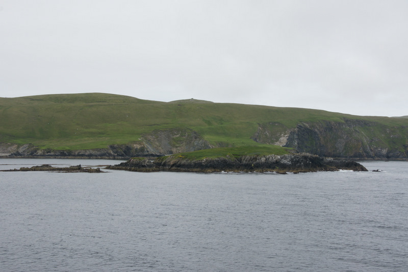 North Holm of Burravoe